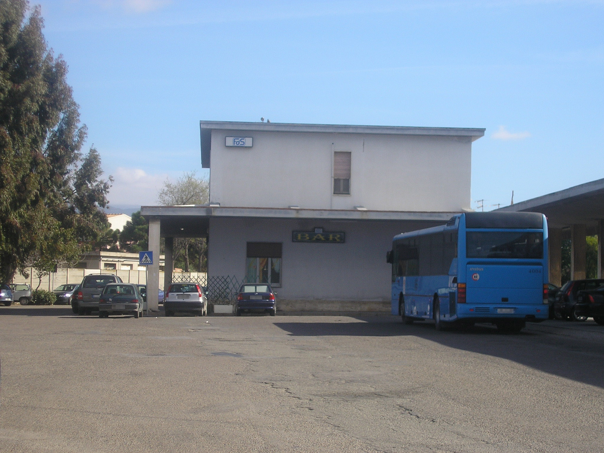 The Ferrovie della Sardegna railway station of Monserrato, Sardinia, Italy, along the Monserrato-Isili railway